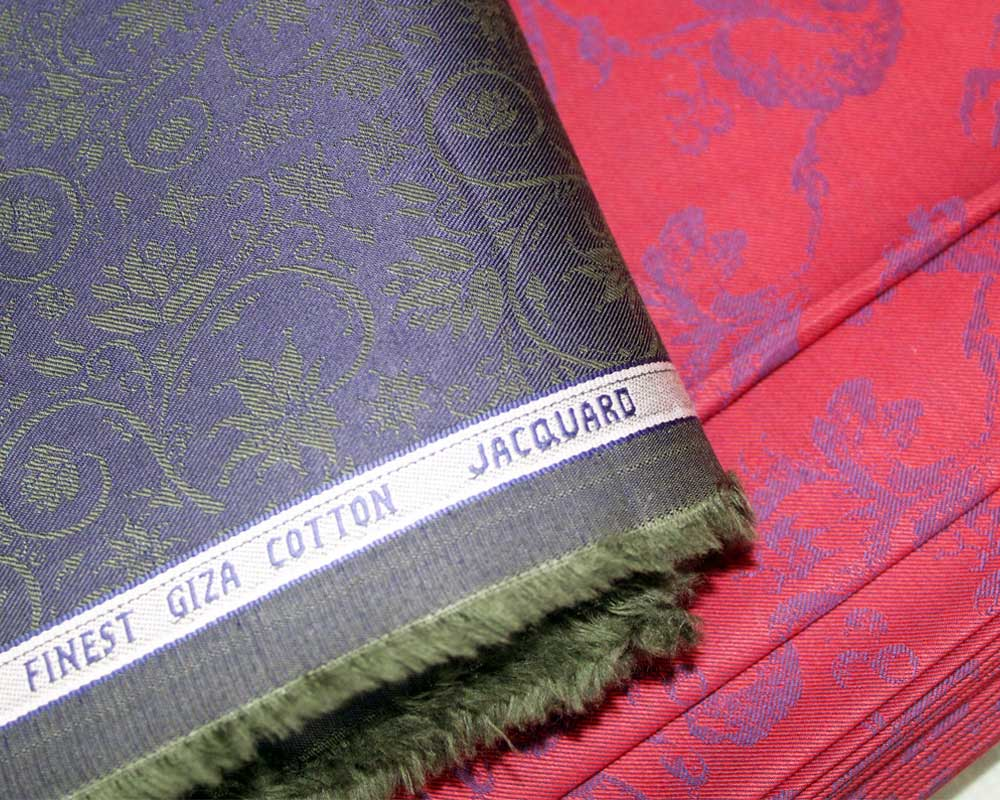 Privee Paris Giza Cotton Shirts India